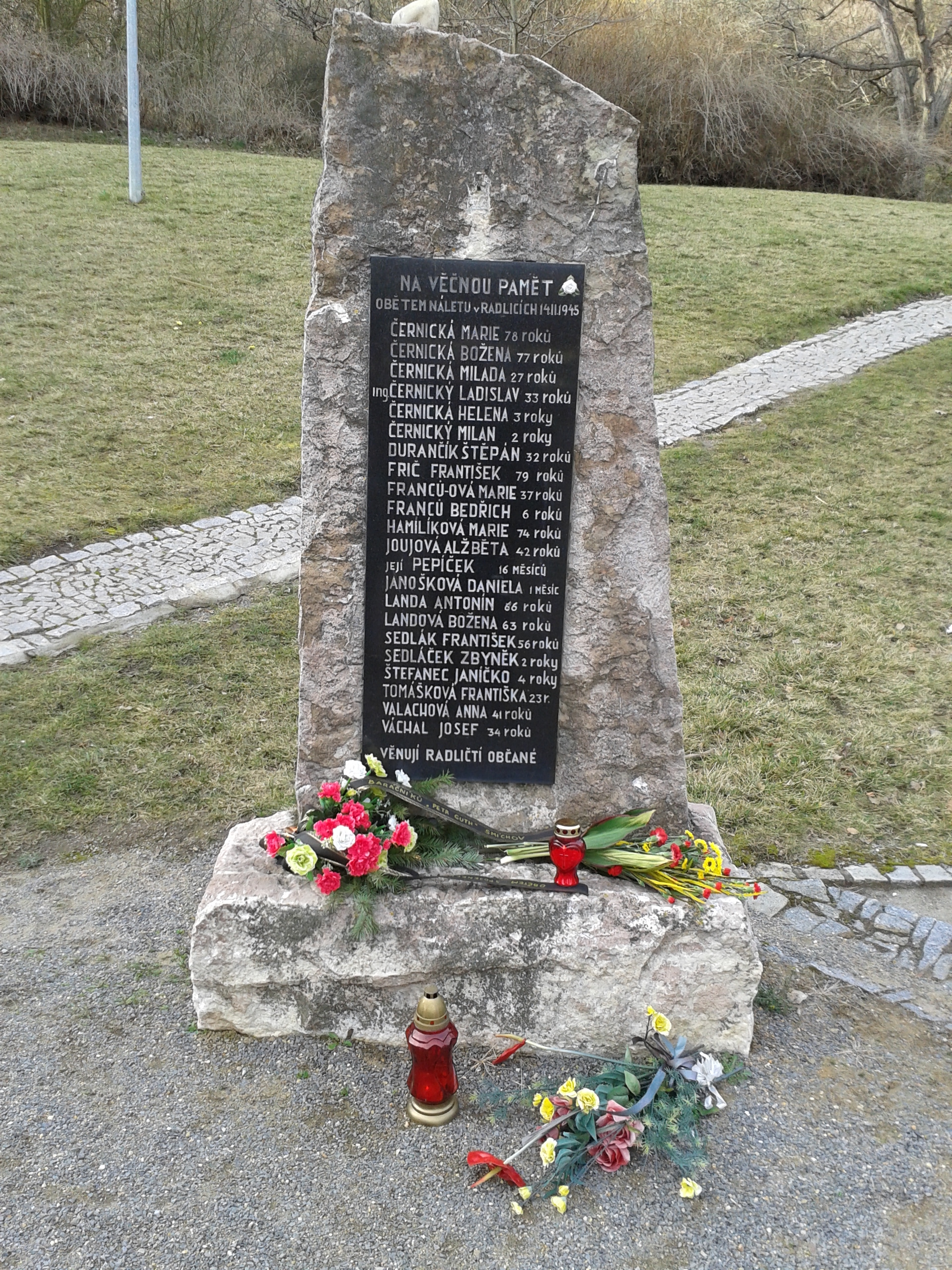 Memorial dedicated "To the eternal memory of the victims of the bombing raid in Radlice February 14, 1945" located near the chapel of St. John of Nepomuk in Prague 5 - Radlice.